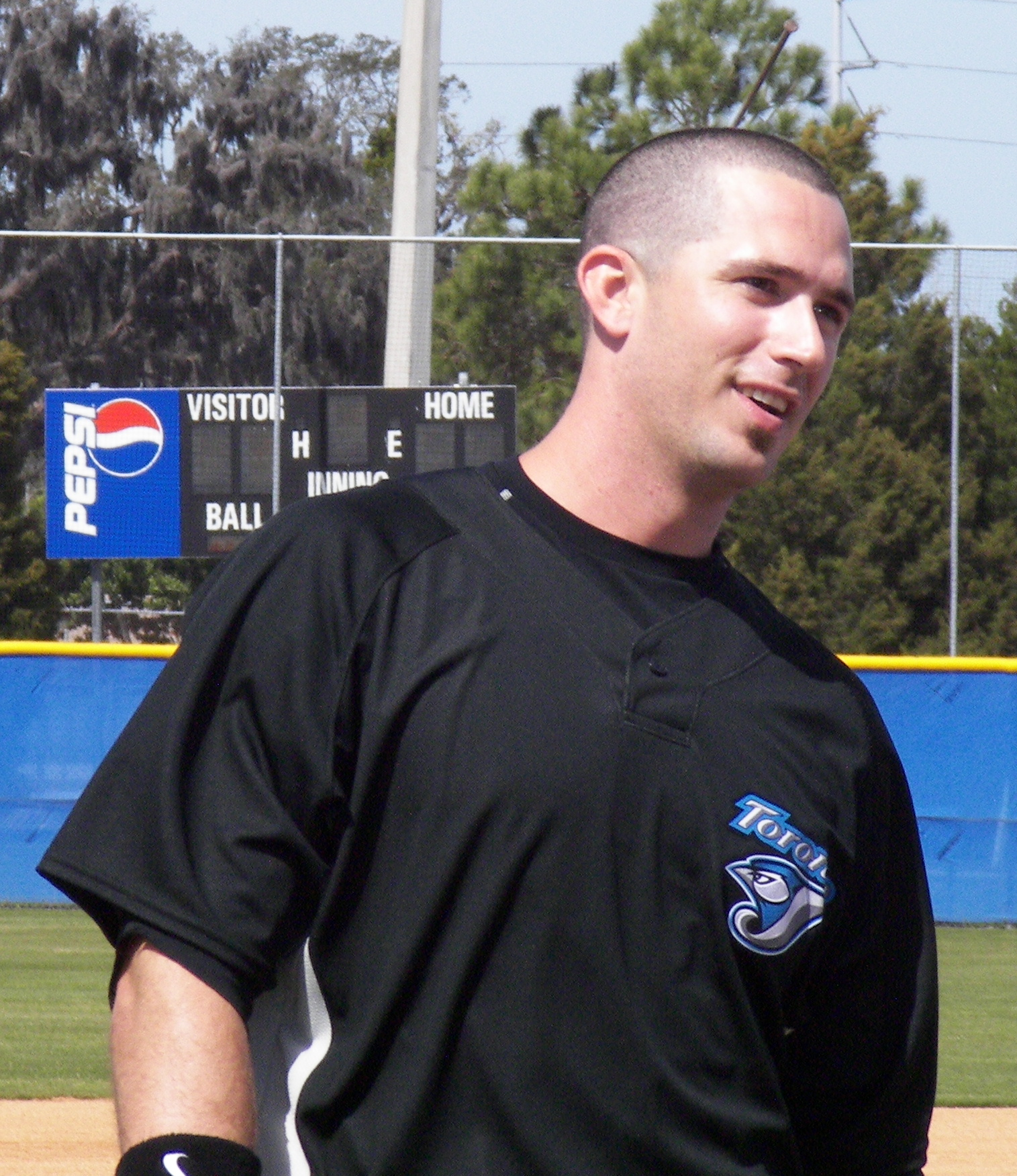 Toronto Blue Jays outfielder John-Ford Griffin during a spring training workout at the Blue Jays' spring training complex in Dunedin, Florida.